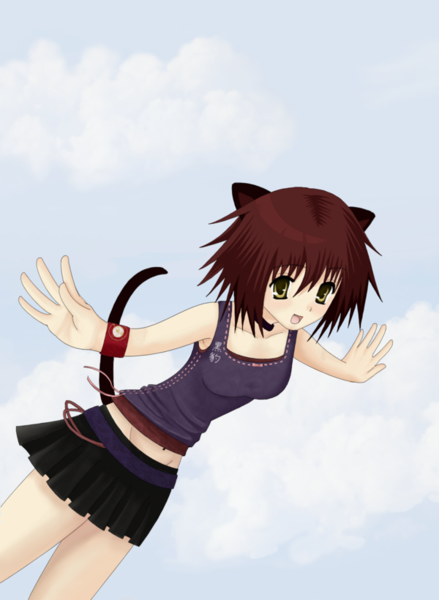 FITcon 2008 Mascot, as designed by Brianna Floss.